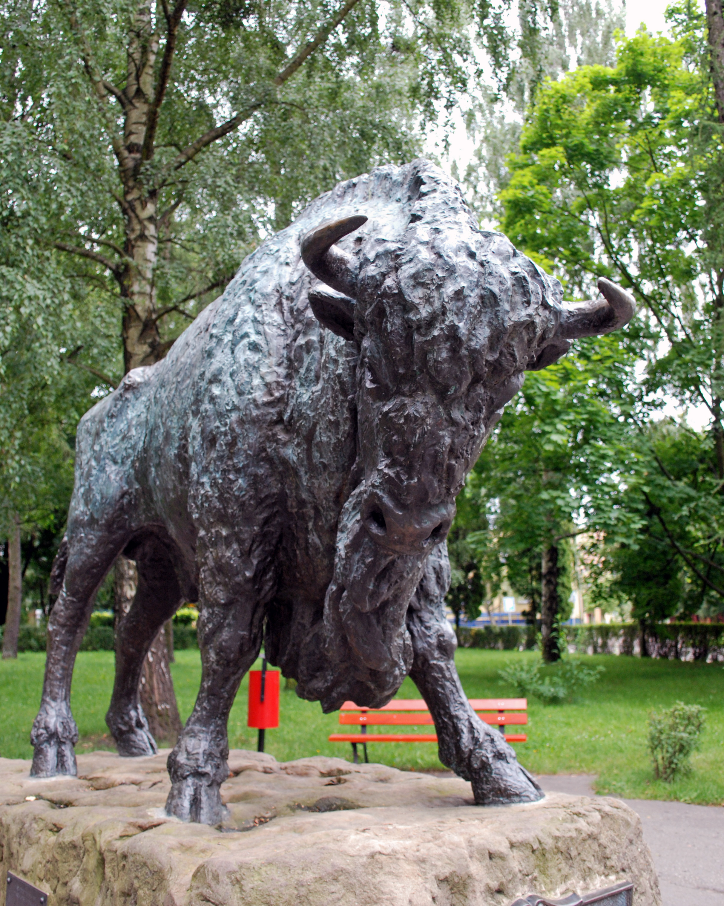 This photo from Podlaskie Voievodeship was taken during Polish Wikiexpedition 2009 set up by Wikimedia Polska Association. The making of this document was supported by Wikimedia Polska. Pomnik żubra w Hajnówce.